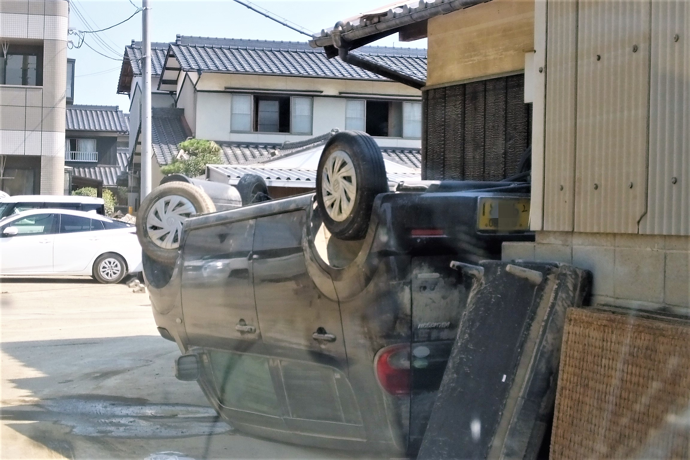 2018-07-14 Floods of Mabi, Kurashiki City 倉敷市真備 平成30年7月豪雨被害